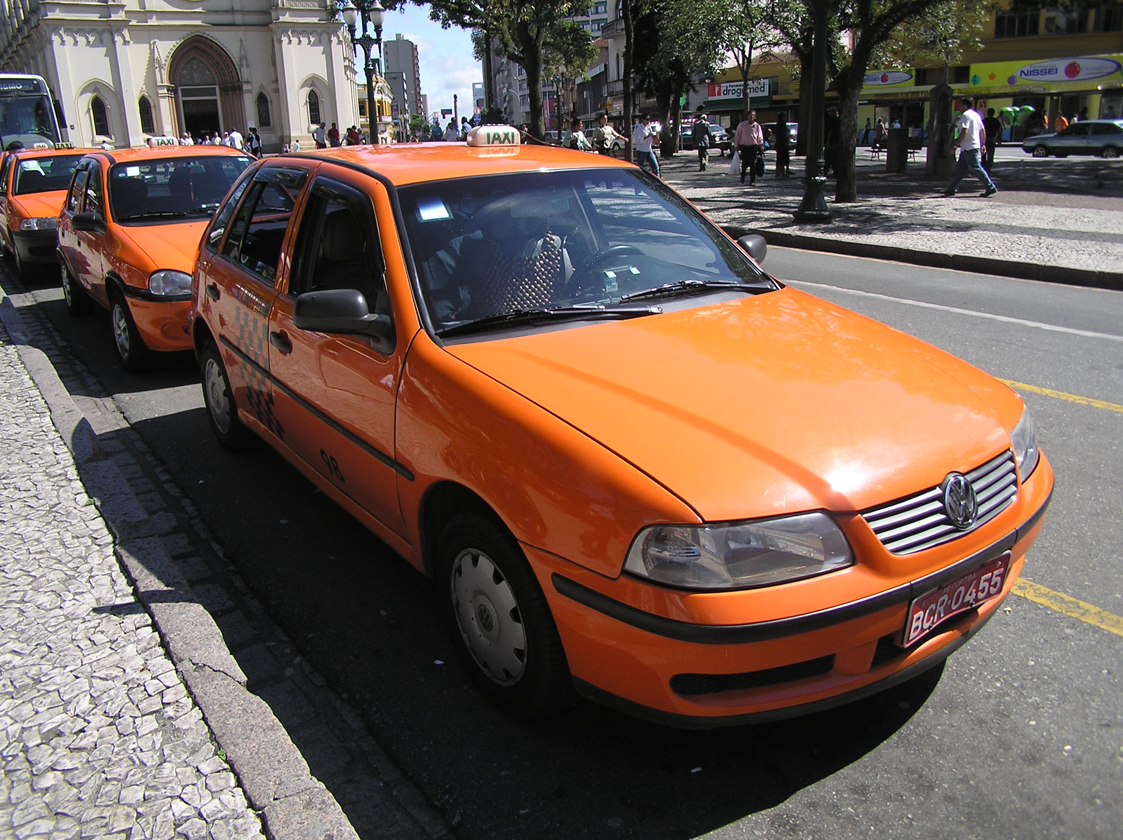 Volkswagen Gol Mk3 taxi car in Curitiba, Brazil.